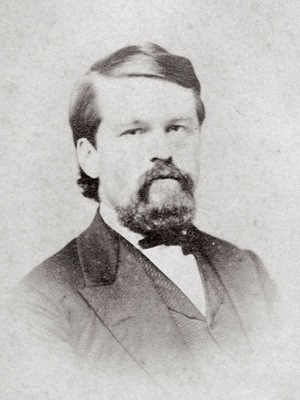 Family photograph of Luther Judson Glenn, circa 1850